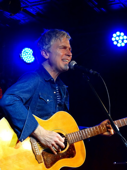 Matthew Caws of Nada Surf performing an acoustic show at The Saint in Asbury Park, NJ, Oct 2017. Photo by LHCollins.